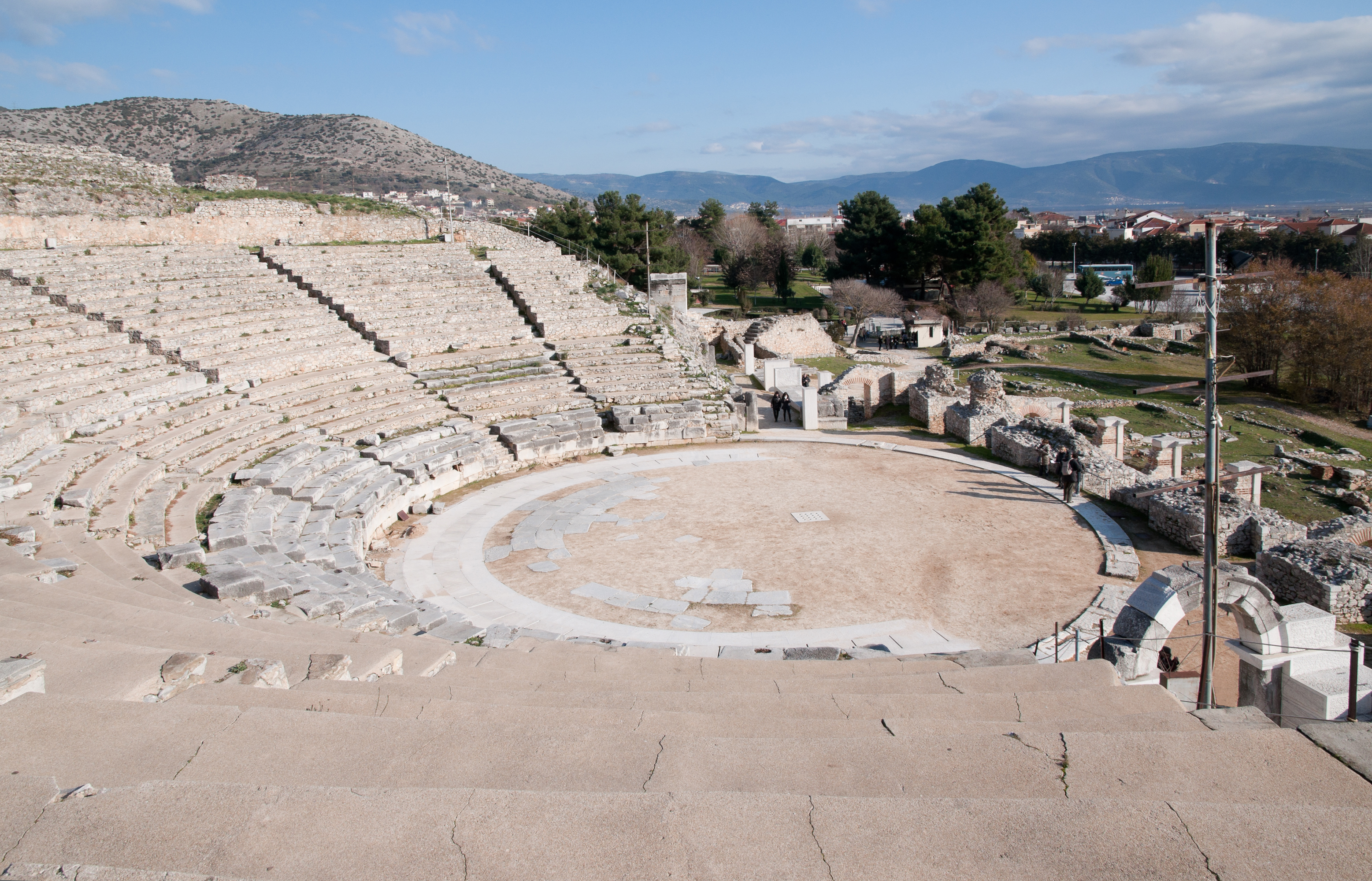 The ancient theatre of Philippi, Greece.